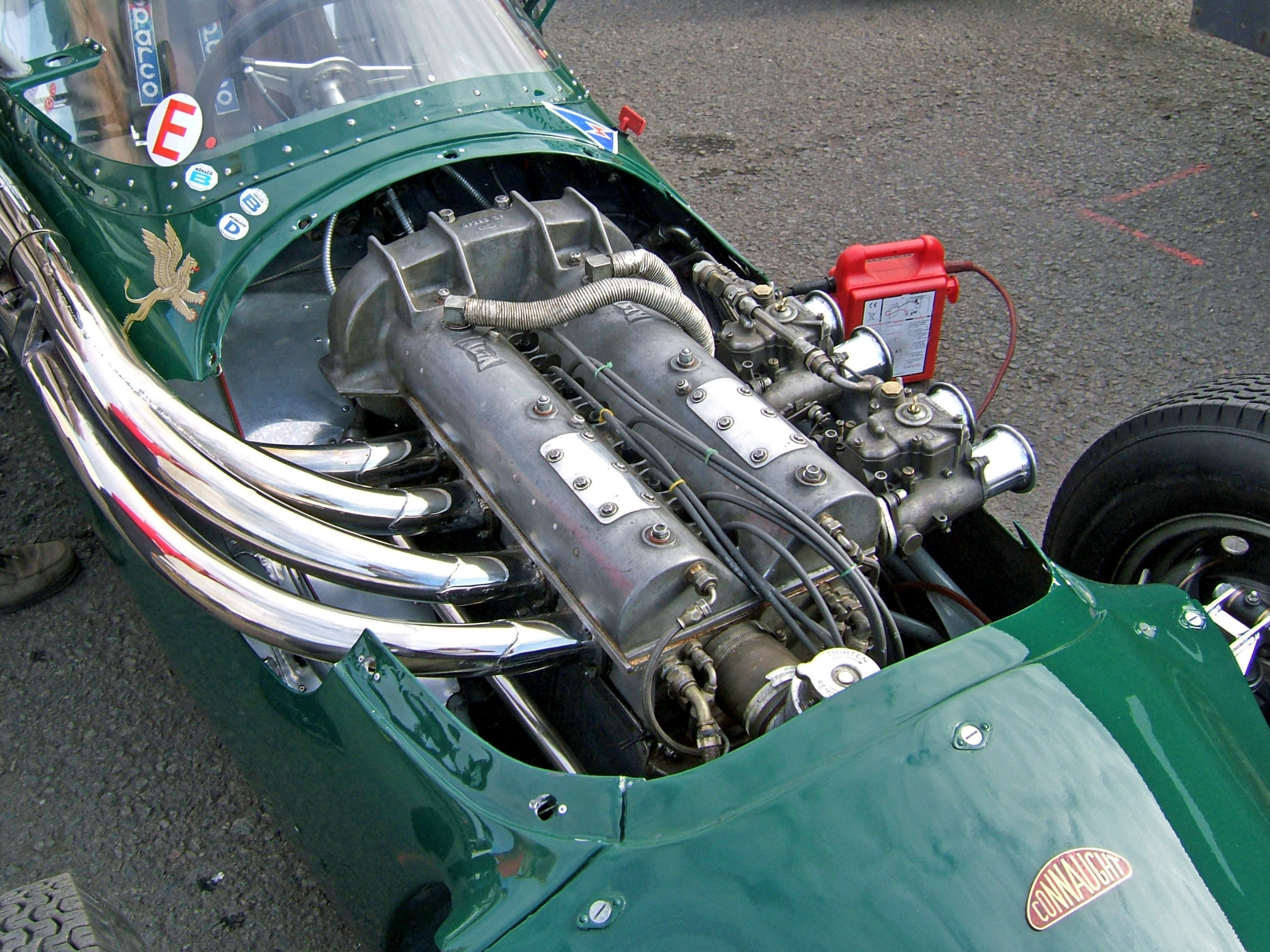 An Alta straight-4 engine installed into a Connaught Type C, in the paddock of the VSCC SeeRed race meeting, Donington Park, September 2007.